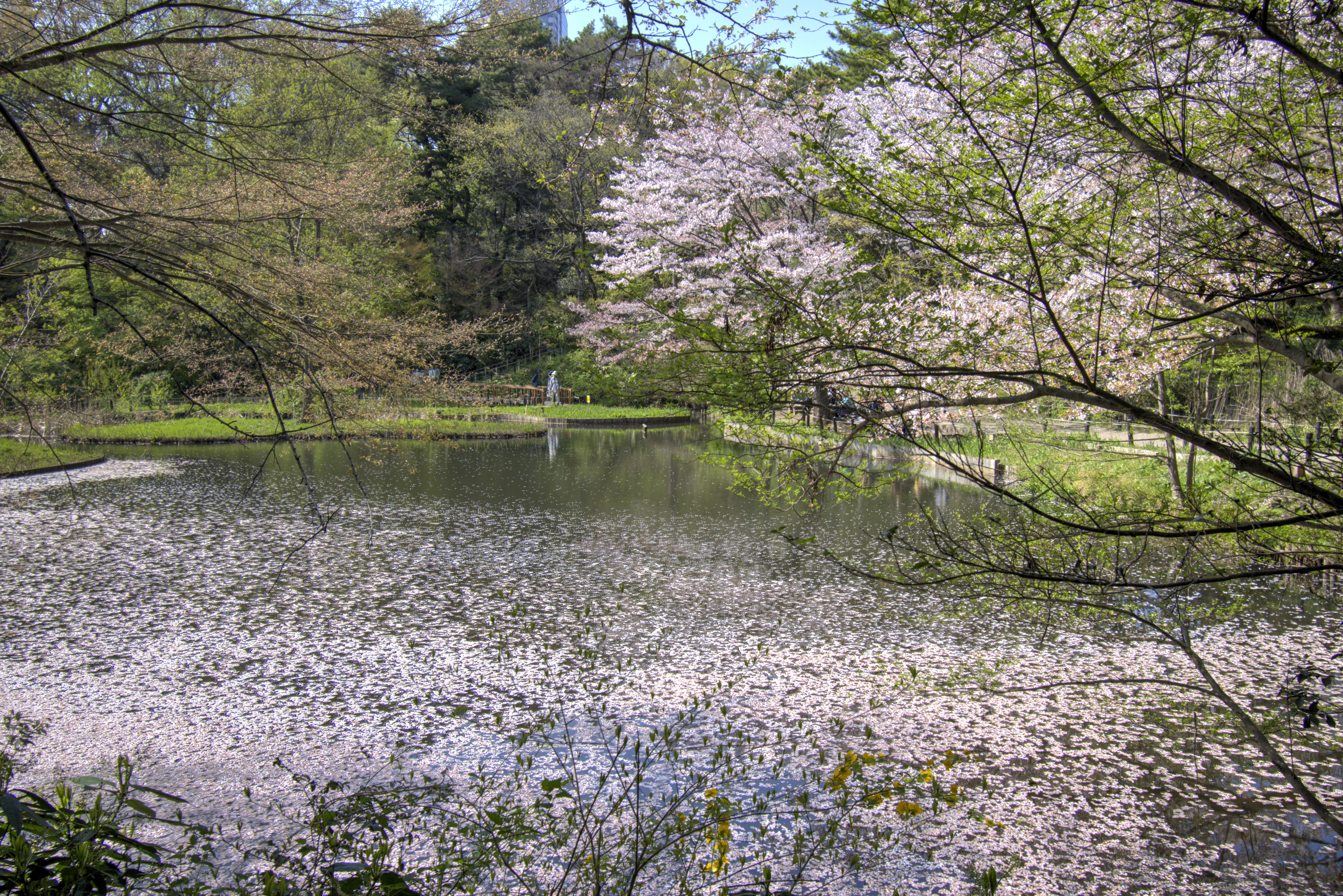 A pond in the Institute for Nature Study, National Museum of Nature and Science in Shirokanedai, Tokyo, Japan.